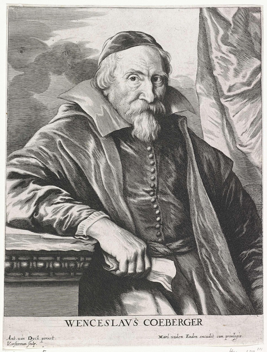 Image from - public domain given its age